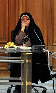 From right to left: Dr. Najafi, Dr. Ebtekar, Mr. Chamran, Mr. Dabir (members of the council) and Mrs. A'rabi (Mother of martyr Sohrab A'rabi) Tehran Islamic City Council (شورای شهر تهران) The meeting room was full of crowd today. Some people didn't have any seat. They were families of arrested, disappeared and killed politicians, journalists, lawyers and normal people who was arrested during the election aftermath. Families introduced themselves and talked about their problems, and the fact that they are unable to contact their son/daughter/sister/brother/father. And that they are under physical, neural and mental torture. Even a mother told that she heard that her daughter is being raped in jail.